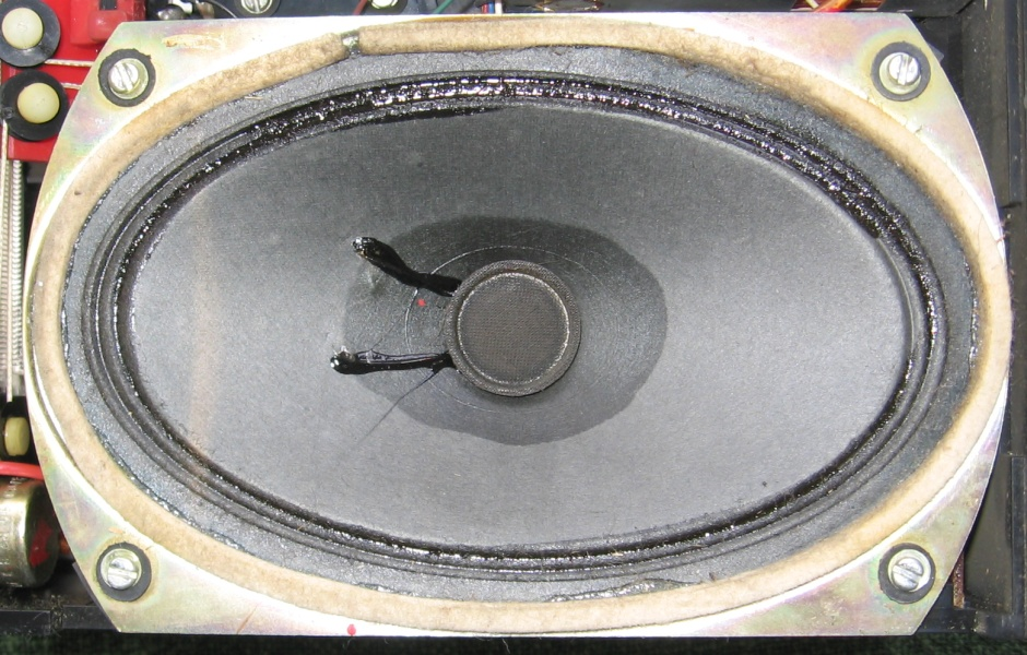 Dynamic elliptic loudspeaker